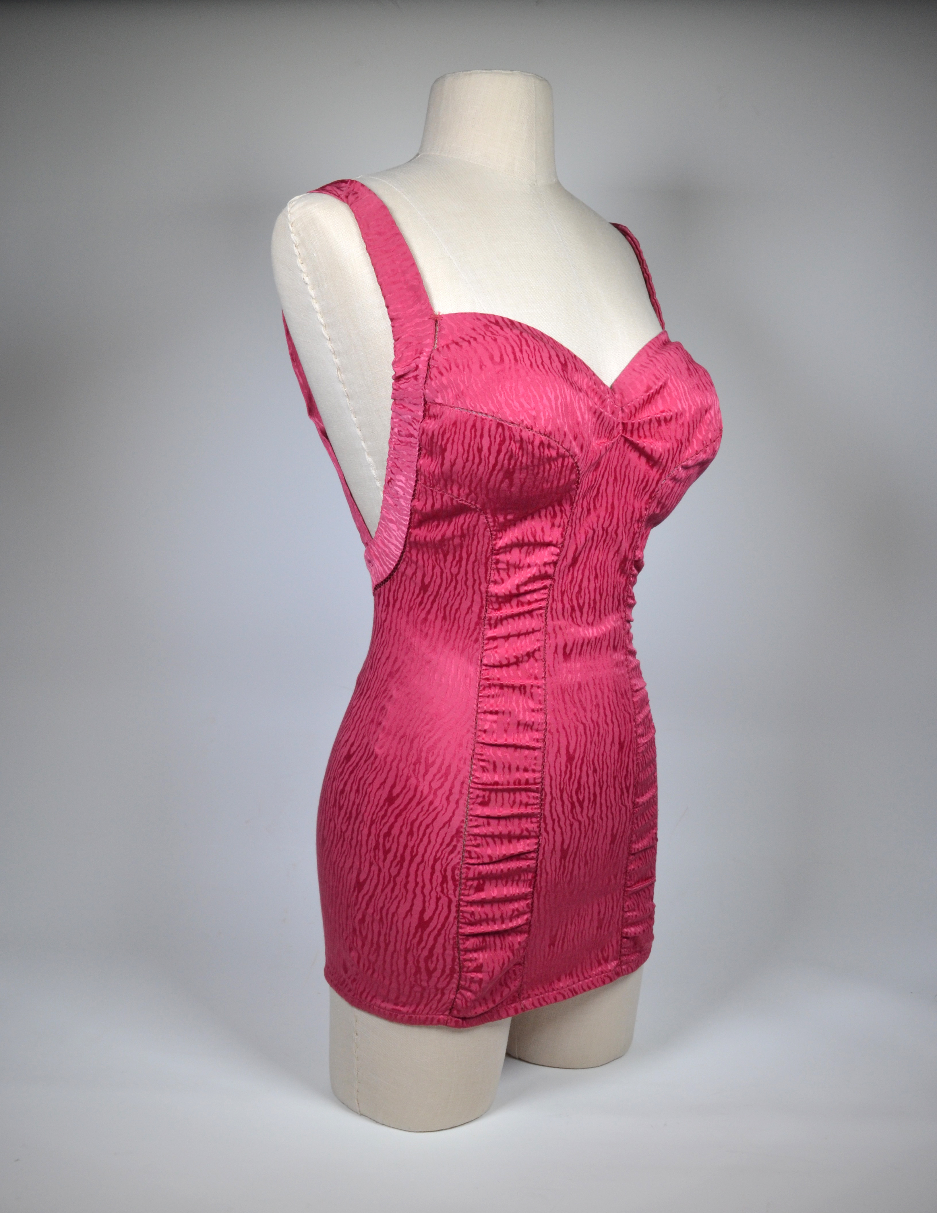 This photo shows a "Shirred Panel Classic" Rose Marie Reid swimsuit from 1951 in the Cherry Cordial color owned by the Harold B. Lee Library of Brigham Young University displayed on a dressform.